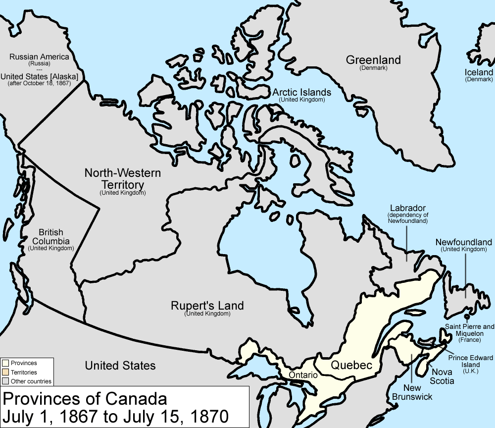 Map of the provinces of Canada as they were from 1867 to 1870. On July 1 1867, the Dominion of Canada was created from three provinces of British North America: Canada (split into the provinces of Ontario and Quebec), New Brunswick, and Nova Scotia. On July 15 1870, Rupert's Land and the North-Western Territories were ceded to Canada, and became the North-West Territories; a small square of this was made the province of Manitoba. Note that, to make for simpler mapping, the western and southwestern portions of the 1927 Privy Council "Coast of Labrador" boundary is used. For the southern boundary, from River Romaine east, Quebec's version of the boundary is used. Until 1927, Canada recognized only a tiny sliver along the Atlantic Ocean as belonging to Newfoundland. Made by User:Golbez.